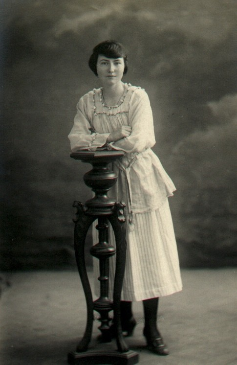 Examples were selected taken from the files of women personnel, from different religious, ethnic and social backgrounds, who worked at the Ottoman Bank 1911-1934. SALT Research, Ottoman Bank Archives 1911-1934 yıllarında Osmanlı Bankası’nda görev yapmış olan; farklı din, etnik köken ve toplumsal kesimlerden kadın çalışanların personel dosyalarından örnekler SALT Araştırma, Osmanlı Bankası Arşivleri